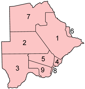 Map of the districts of Botswana in alphabetical order.